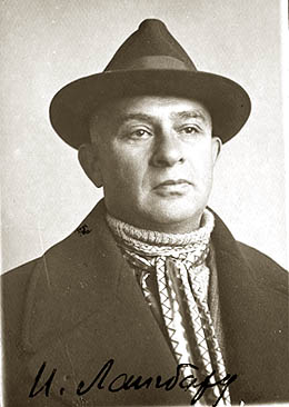 Langbard, Iosif Grigorevich Born Jan. 6 (18), 1882, in Belsk, Grodno Province, present-day Bielsk Podlaski, Poland; died Jan. 3, 1951, in Leningrad. Soviet architect. Honored Art Worker of the BSSR (1934). Doctor of architecture (1939). Langbard studied at the St. Petersburg Academy of Arts from 1907 to 1914. He taught at the Academy of Arts in Leningrad from 1935 to 1950, becoming a professor in 1939. He was the architect of such structures as the Government Building of the BSSR (1930–33), the Officers’ House (1934–39), the Byelorussian Theater of Opera and Ballet (1935–38), and the Main Building of the Academy of Sciences of the BSSR (1935–39)—all in Minsk, as well as the House of Soviets in Mogilev (1938–39). Langbard was awarded the Order of the Badge of Honor.